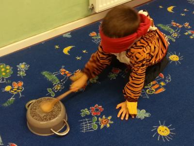 Hit the pot at a birthday party